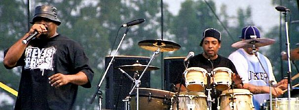 Sen Dog, Bobo and B-Real of Cypress Hill